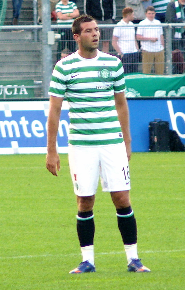 Joe Ledley, Welsh footballer